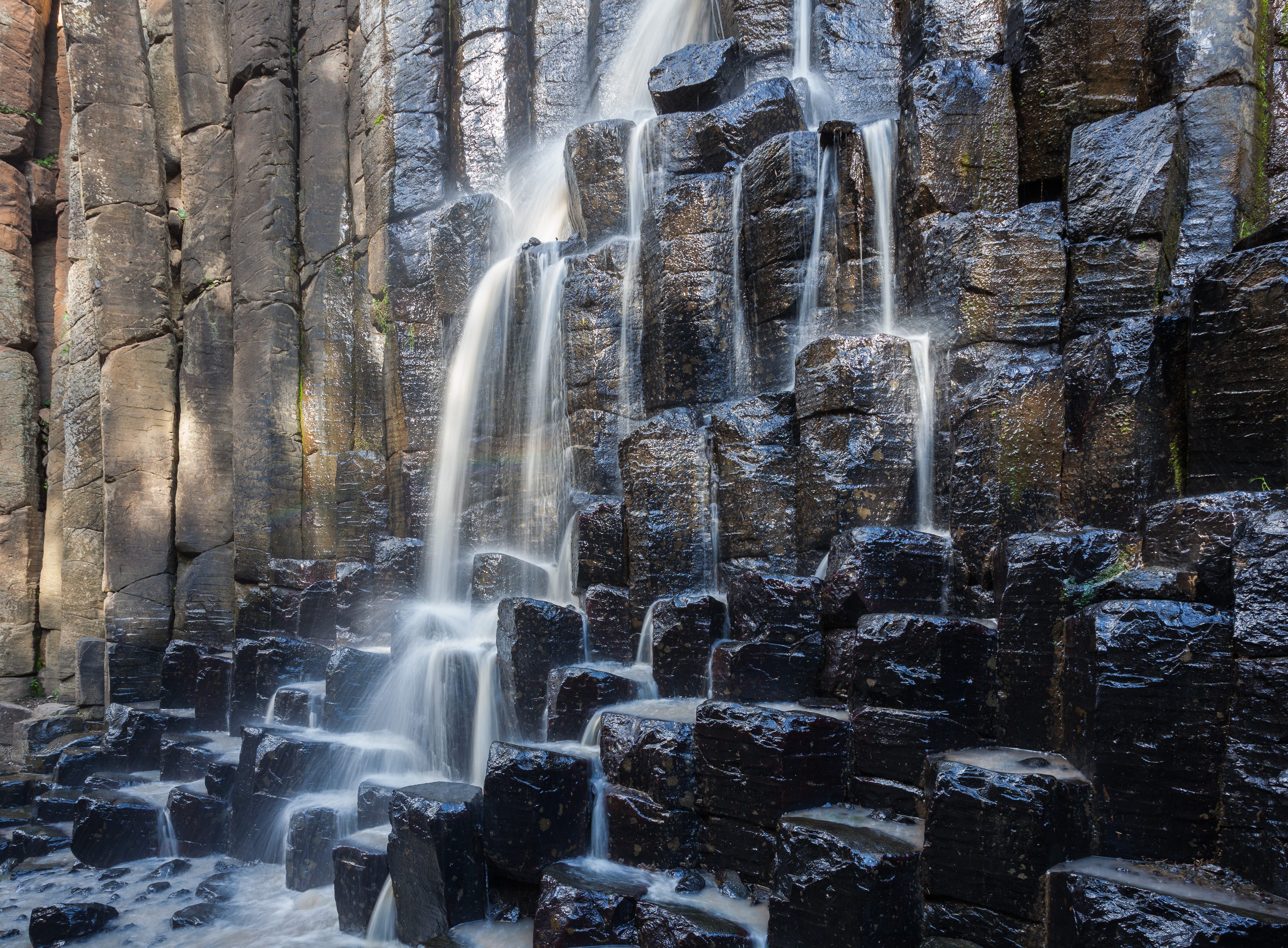 Basaltic Prisms, Huasca de Ocampo, Hidalgo, Mexico